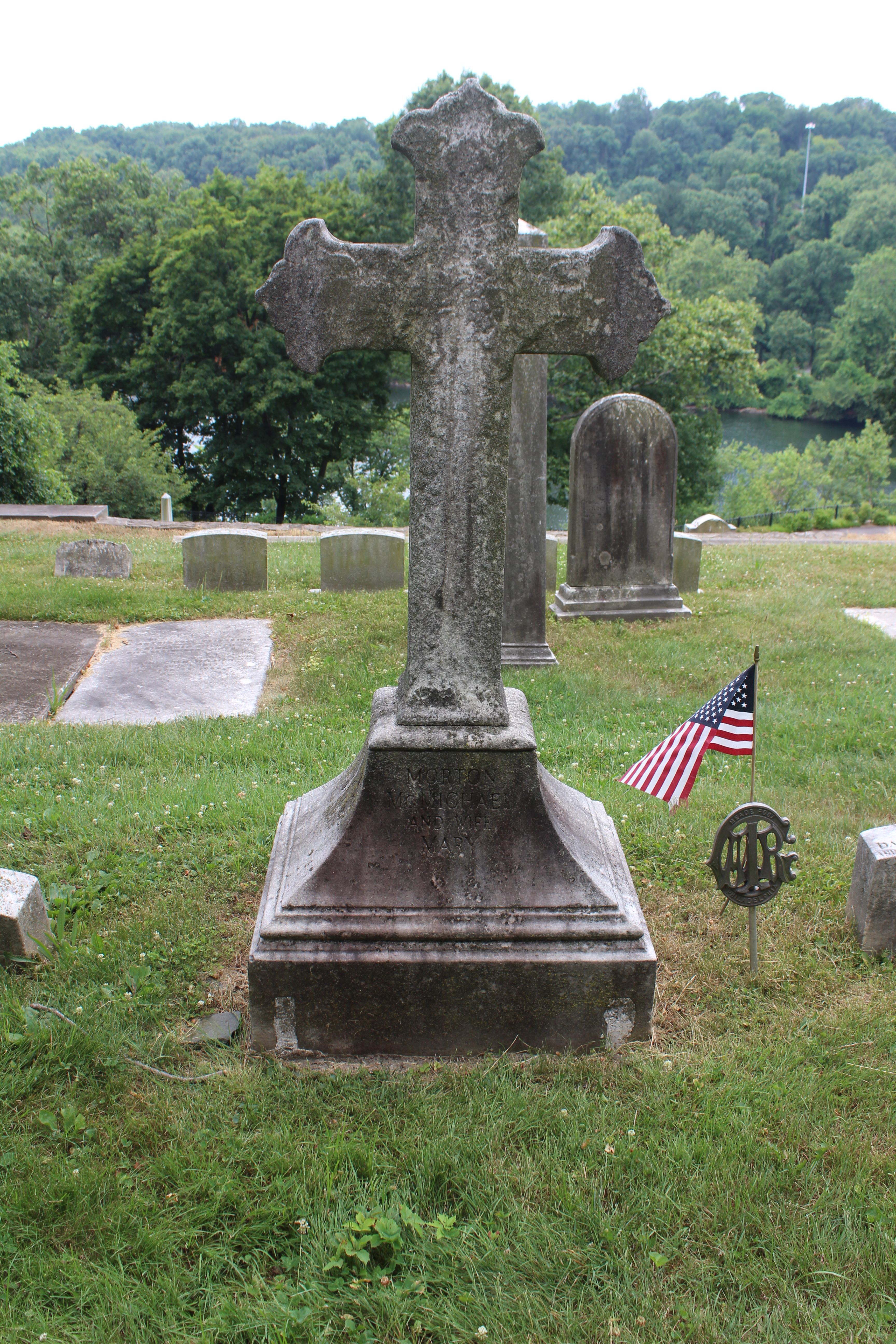 Morton McMichael tombstone in Laurel Hill Cemetery, Philadelphia. Photo taken July 2020.